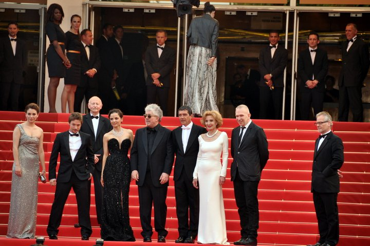 Cast and director of "La Piel que habito" at the Cannes film festival. From left to right at forefront: Blanca Suarez, Jan Cornet, Elena Anaya, Pedro Almodovar, Antonio Banderas, Marisa Paredes and Jean Paul Gaultier